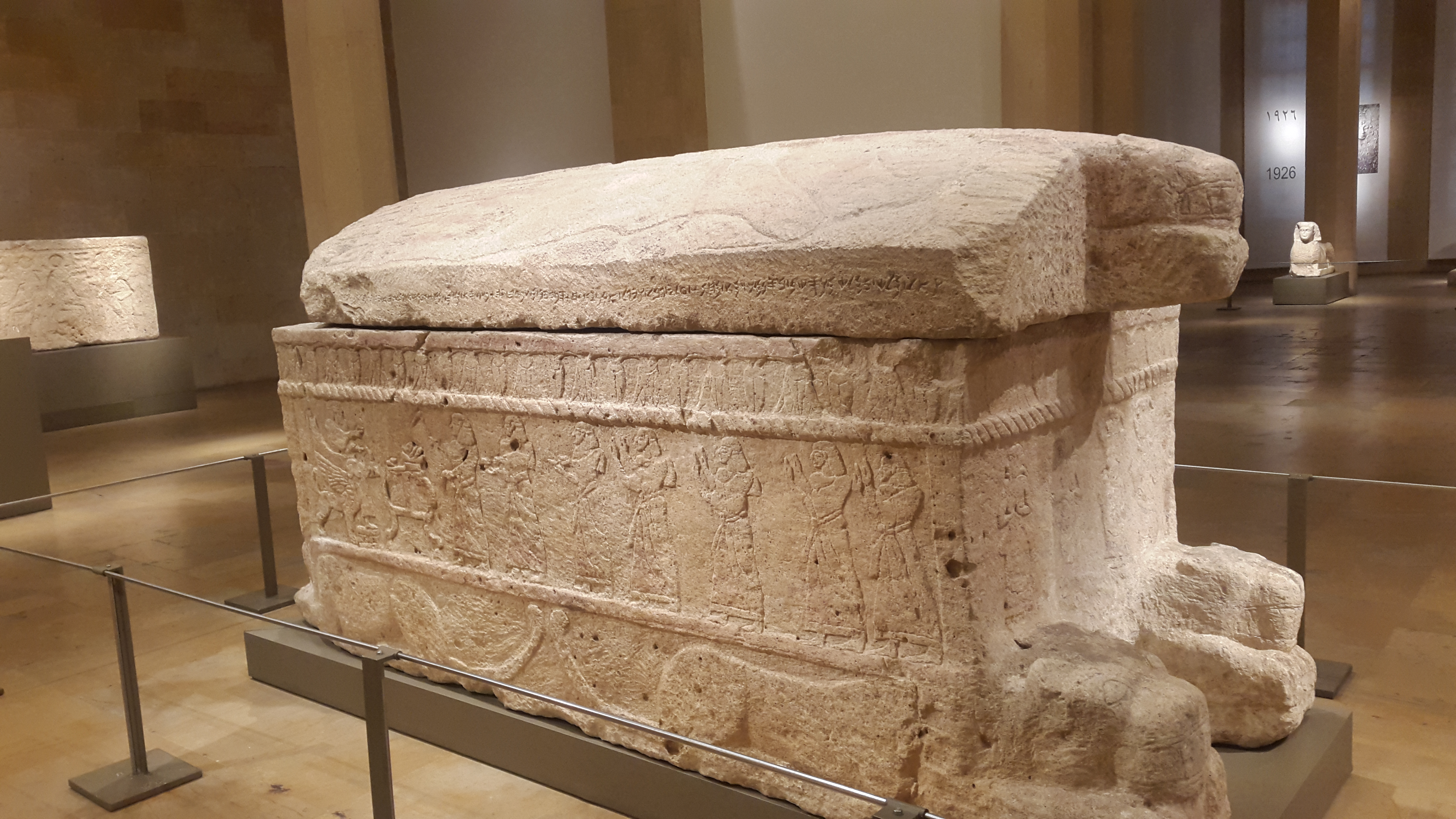 Sarcophagus with Phoenician writing from Byblos